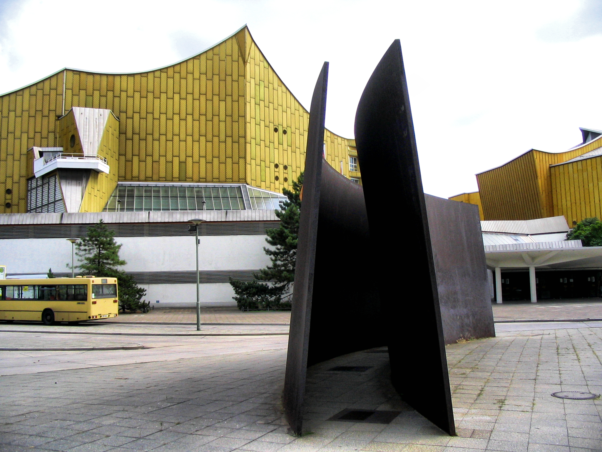 Concert Houses and Serra